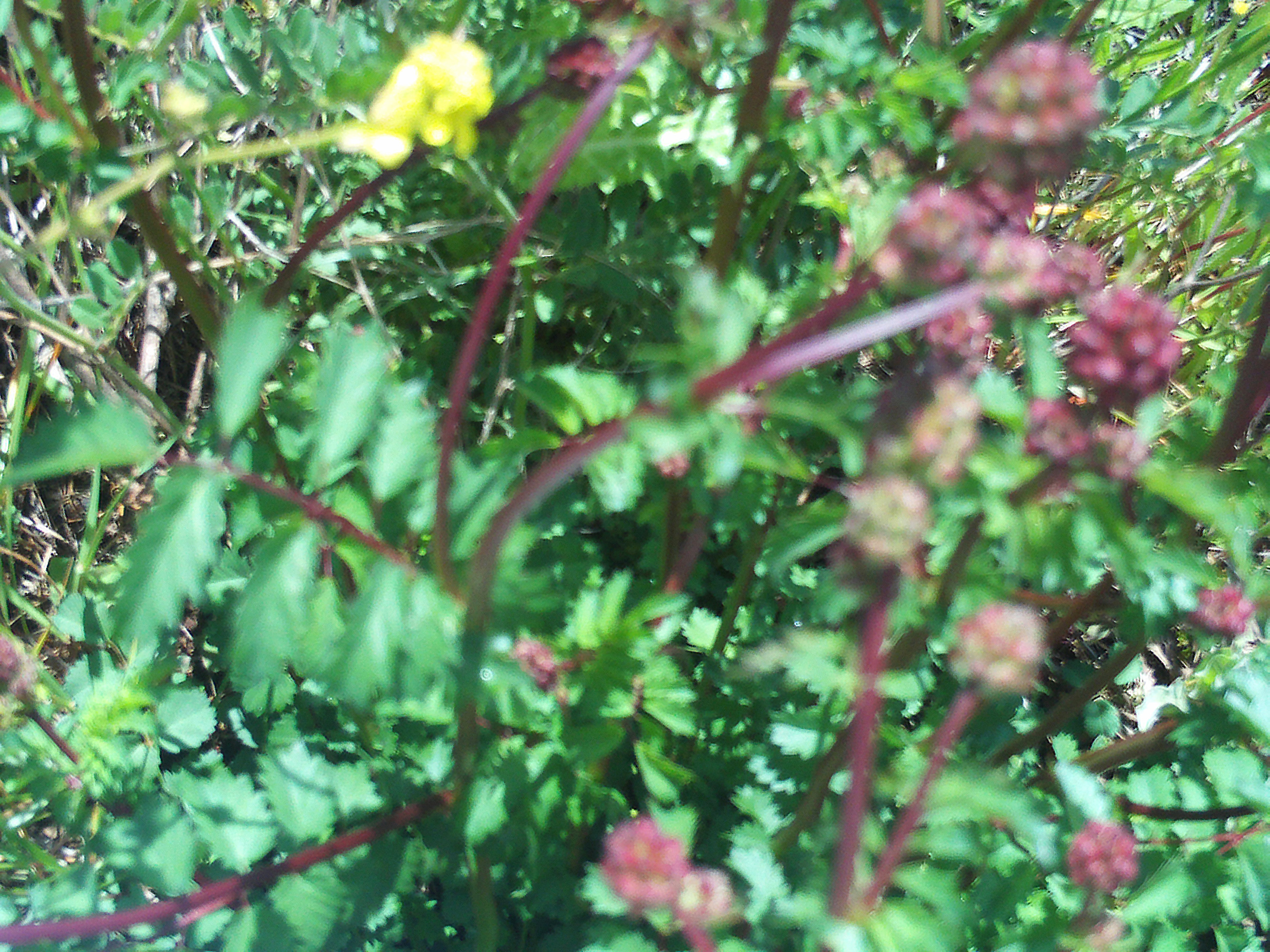 Sanguisorba verrucosa habit, Dehesa Boyal de Puertollano, Spain